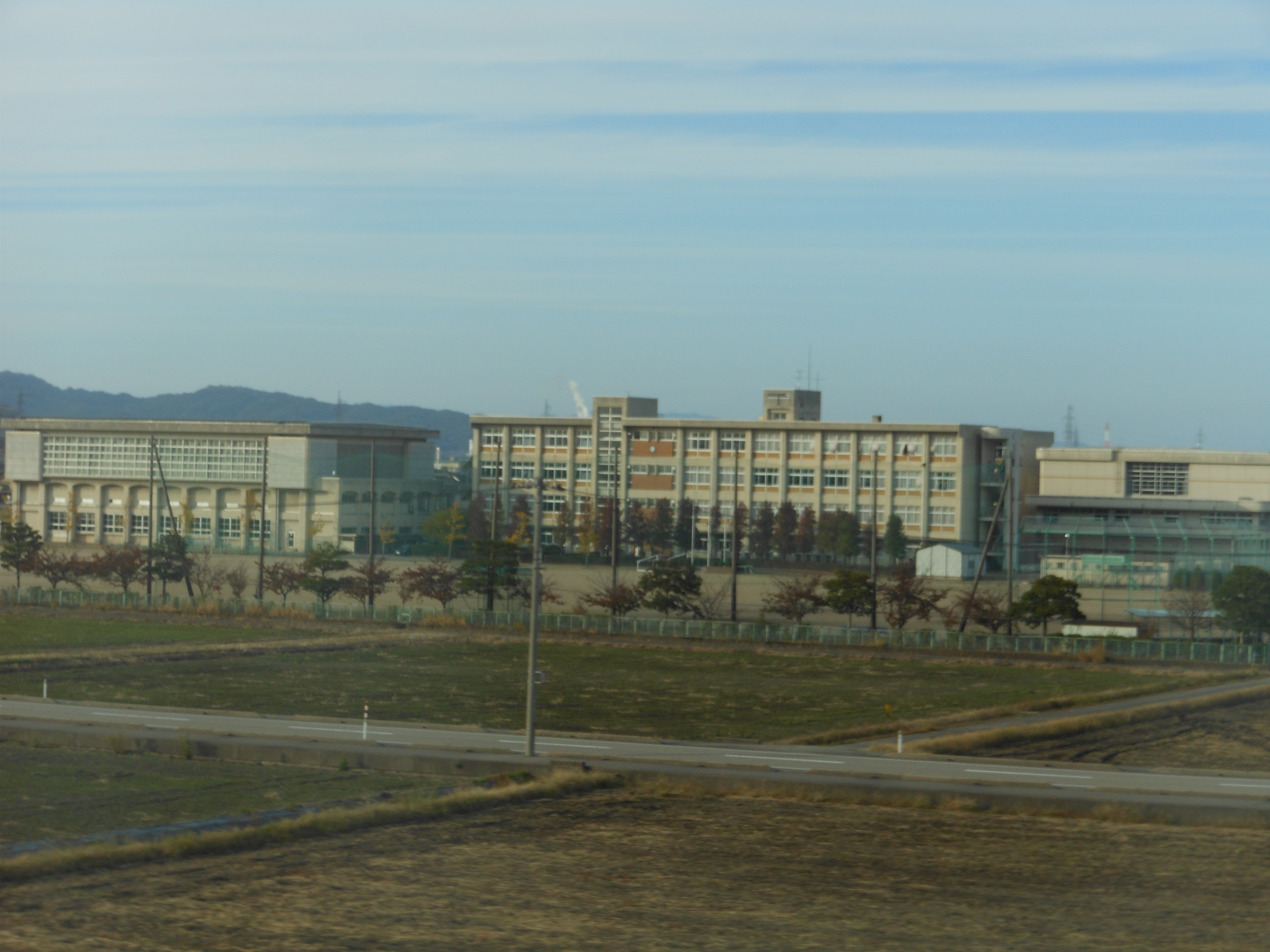 This is the Toyama prefectural Daimon high school in Imizu, Toyama, Japan.